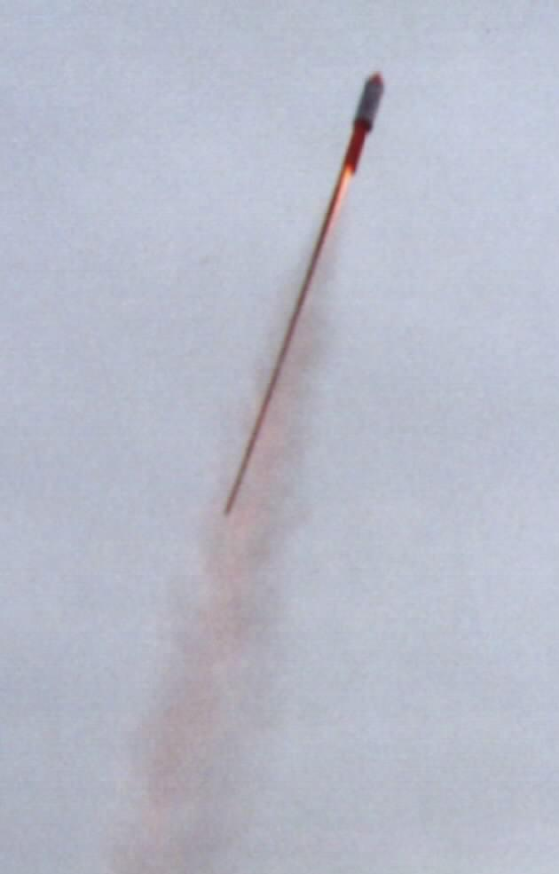 Fireworks rocket in flight. I have made this myself and I hereby give a copy of the image to Wikipedia!